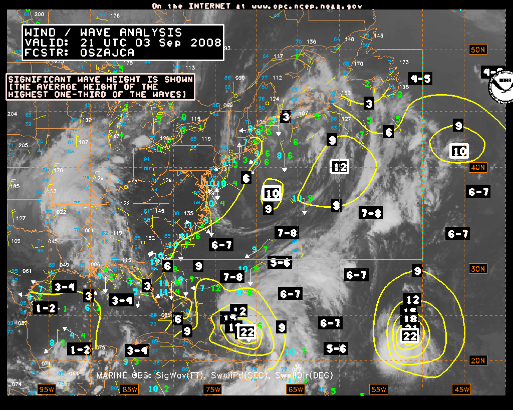 Wave analysis from the US Ocean Prediction Center (OPC), part of the US National Weather Service.